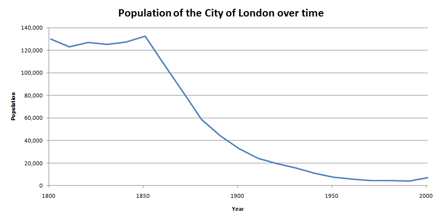 A graph showing the total population of the City of London since 1801, with censuses every 10 years.